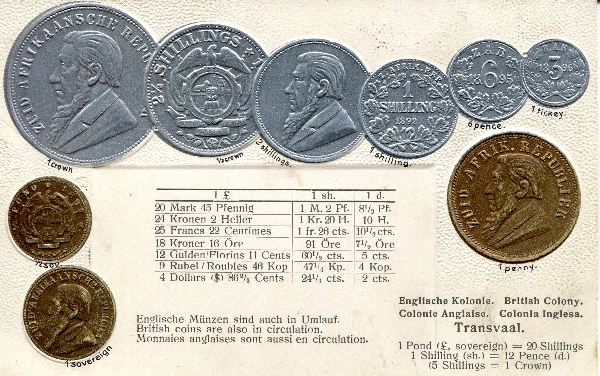 These postcards were designed by Hugo Semmler, a German businessman for cambists (people who exchange money 💴) to base their exchange courses on. After Hugo Semmler other people began producing these cards as well as they became highly popular souvenirs for tourists.